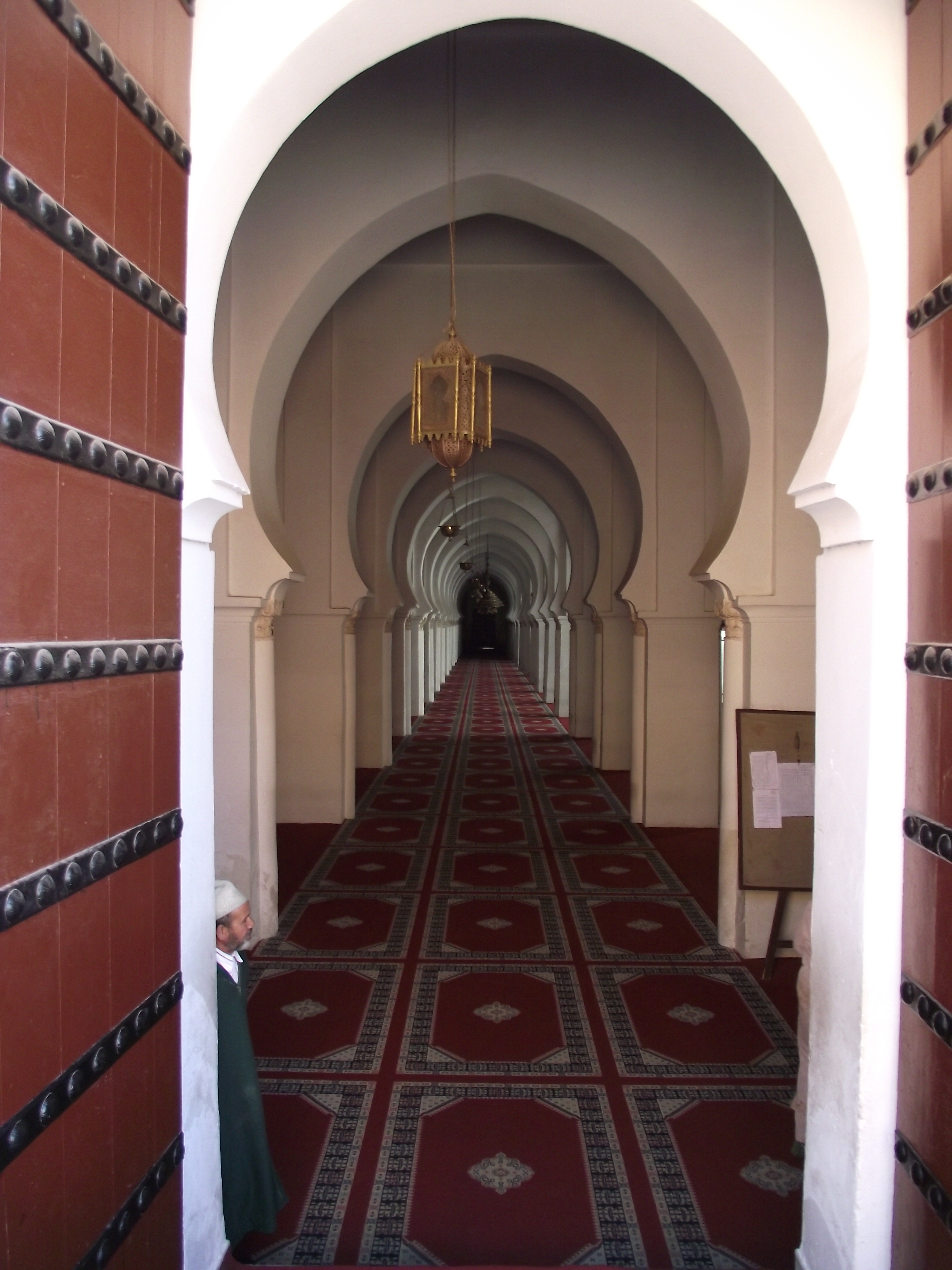 Marrakech, Koutoubia Mosque, 1158-59